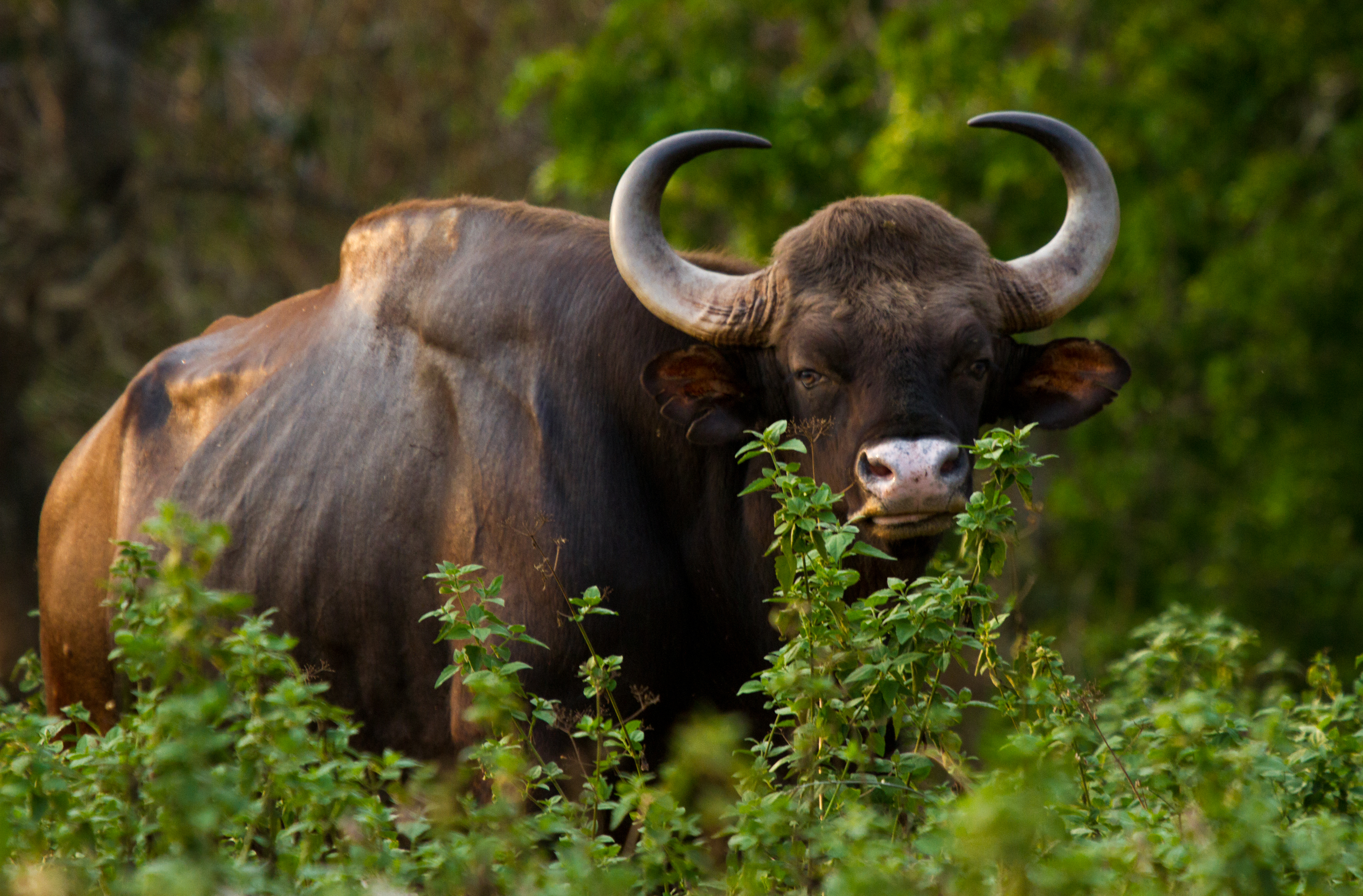 Gaur or Indian Bison (Bos gaurus).